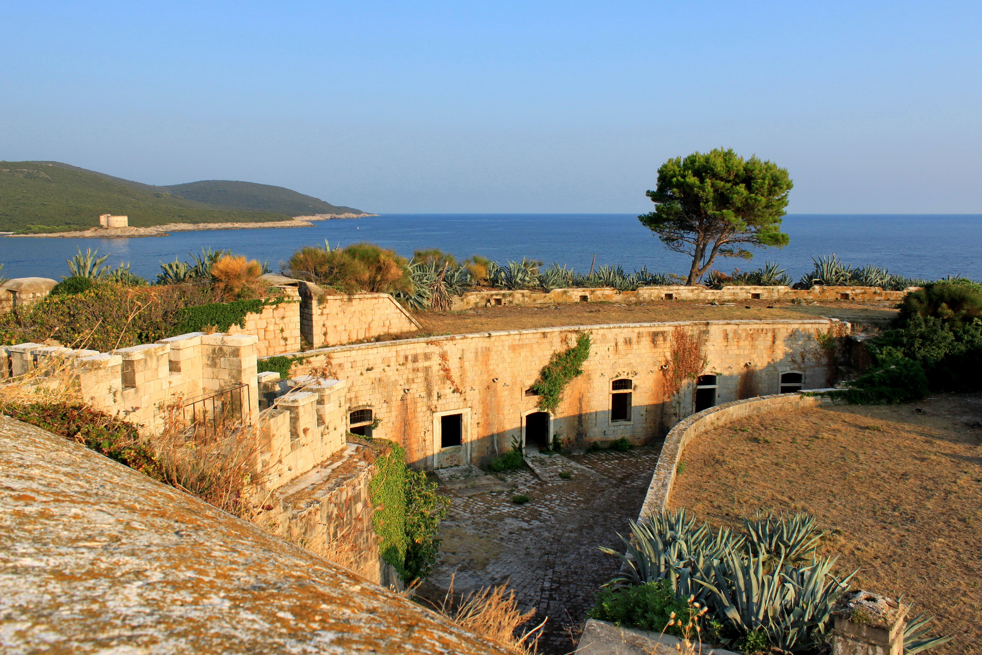 Fort Mamula, Bay of Kotor, Montenegro.